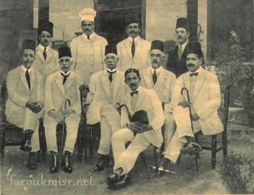 Saad zaghlul and his company before exil